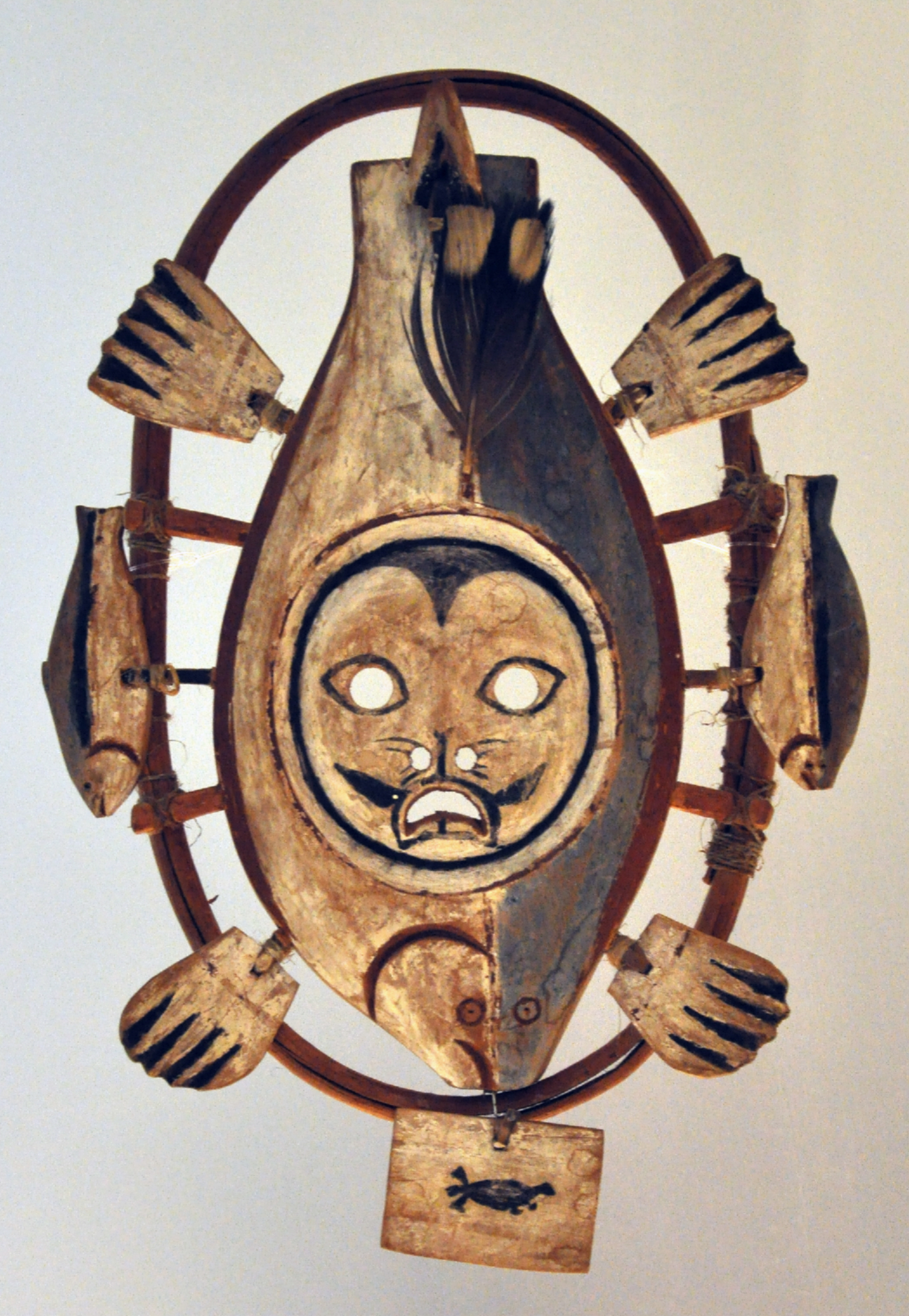 British Museum referenceAm1976,03.82Detailed descriptionWooden mask in the form of a flatfish, mounted on a wooden ring with wooden pegs tied to the ring with sinew. Eskimo-Aleut, Hooper Bay, 1930sLocationRoom 24